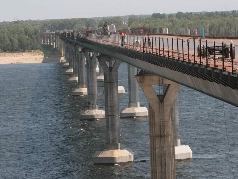 The bridge over Volga in Volgograd under construction (summer 2008)